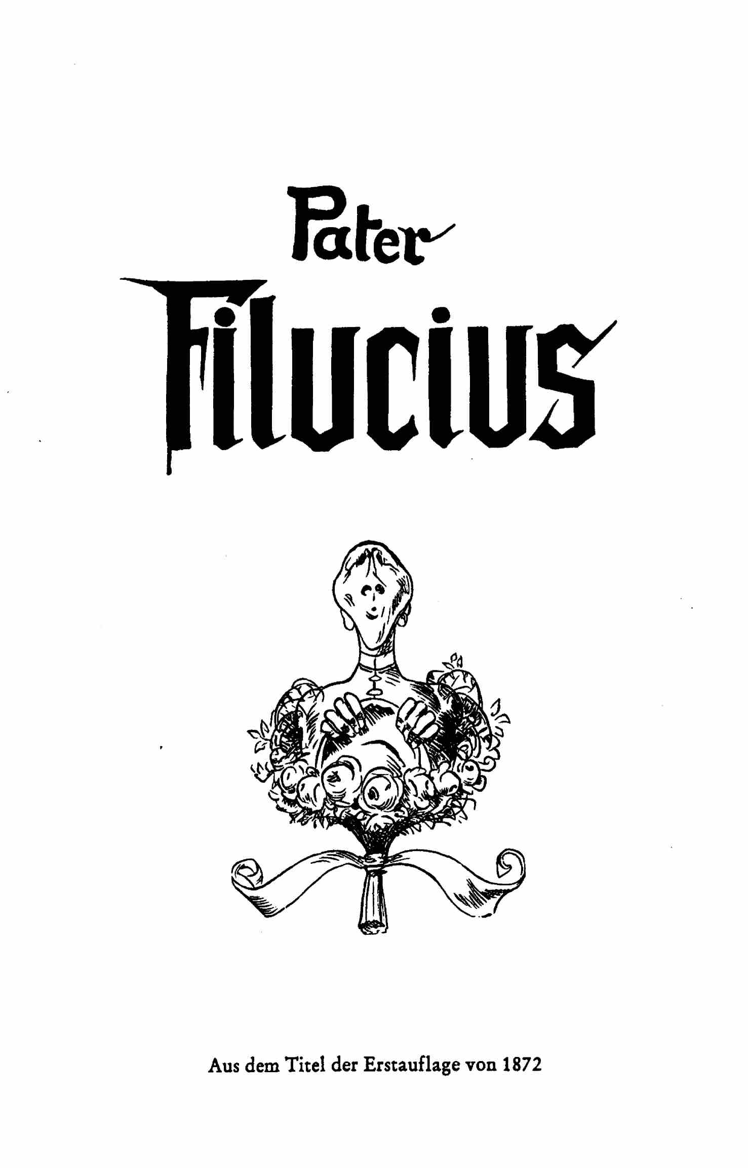 This is a scan of the historical document